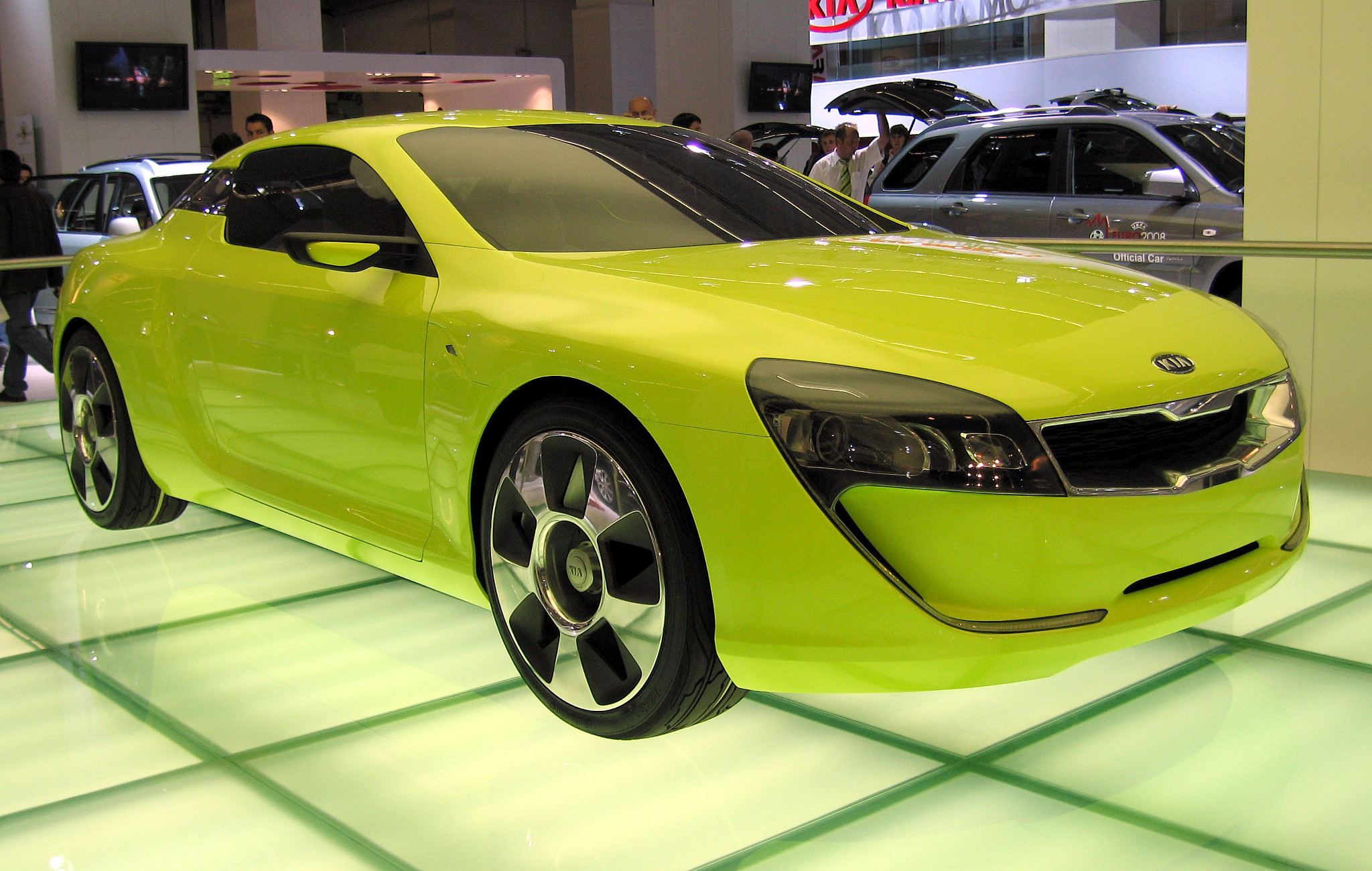 Kia Kee at the IAA 2007